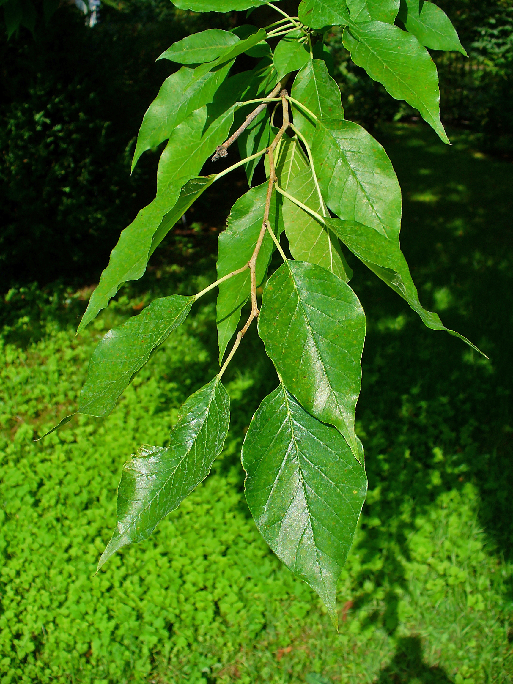 Maclura pomifera, Moraceae, Osage-orange, Horse-apple, Bois D'Arc, Bodark, leaves; Botanical Garden KIT, Karlsruhe, Germany.